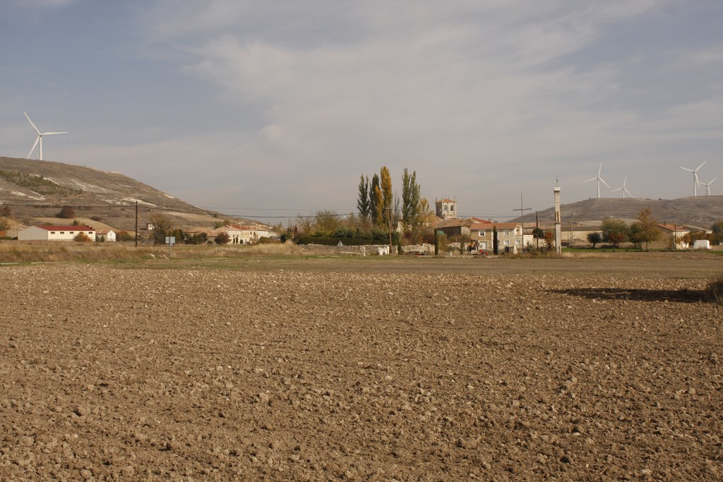 View of Pedrosa de Río Urbel, 2009